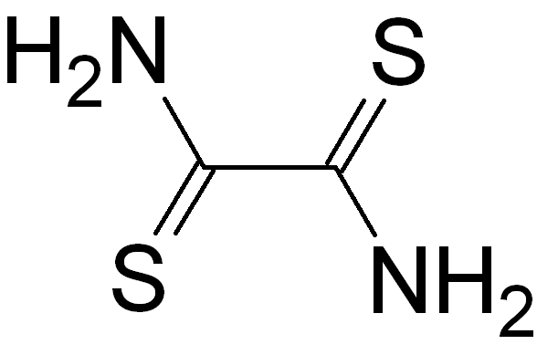 Dithiooxamide